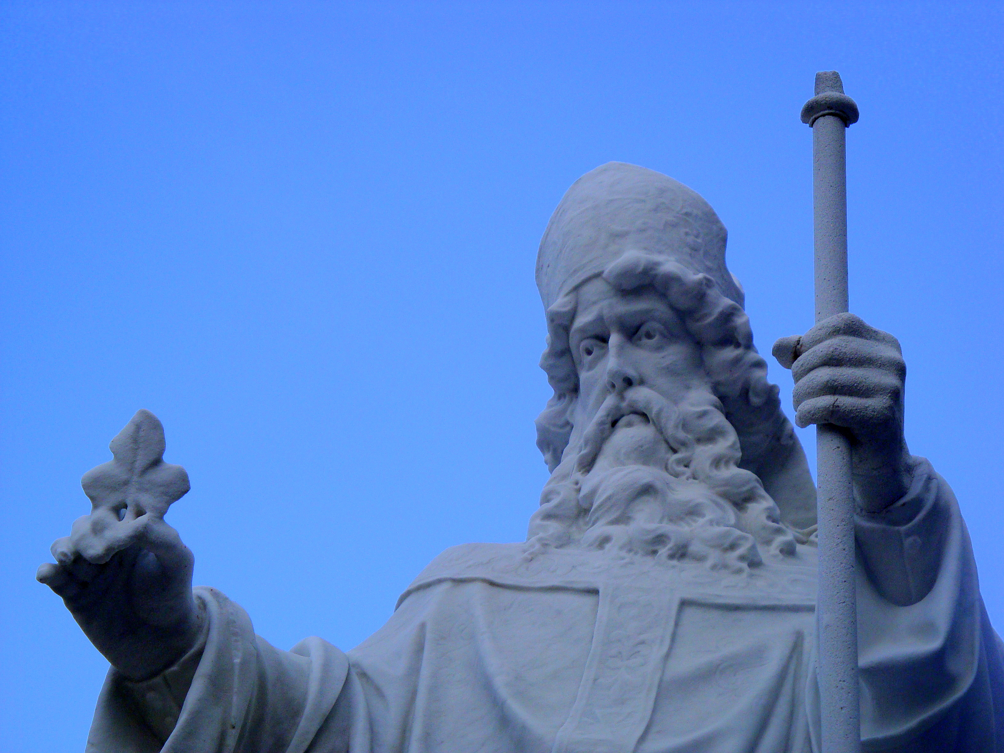 Statue of St. Patrick outside St. John's Seminary in Brighton.